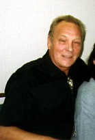 Author Brian Lumley at Necronomicon in Providence, Rhode Island